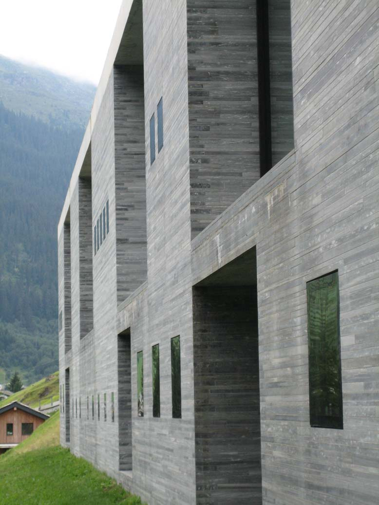 I took this photo myself in August 2006.